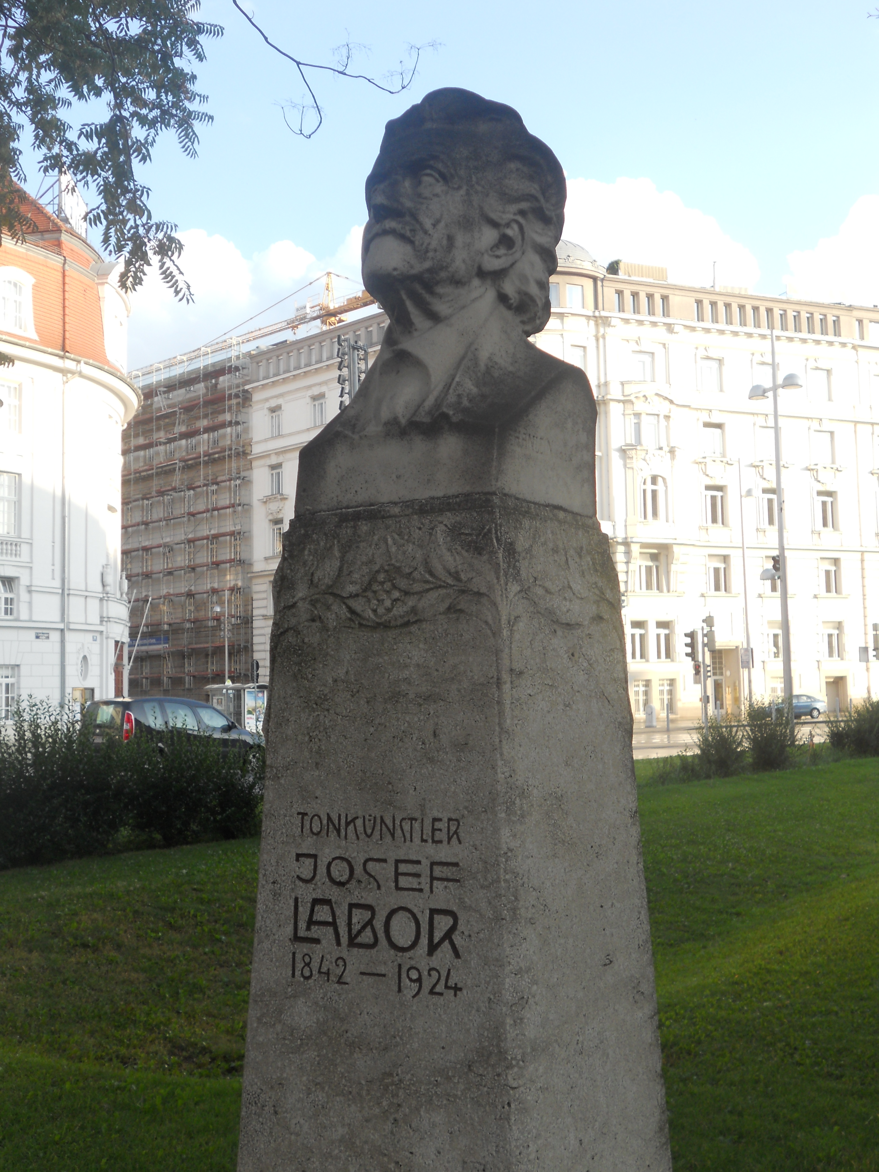 Monument to the pianist and organist Josef Labor in Vienna